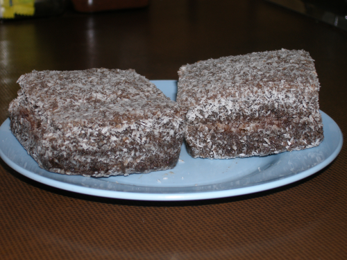 Taken by Peter McGinley using an Olympus C-7070 Wide Zoom digital camera.